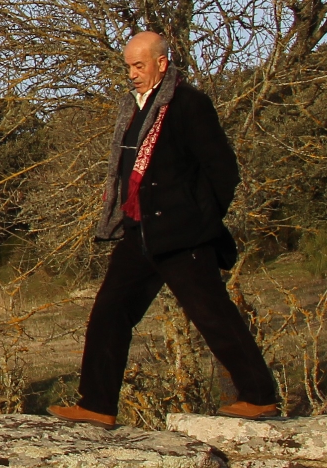 The photographer Miguel Martín in the town of La Mata de Ledesma, province of Salamanca, Castile and León, Spain, in 2019